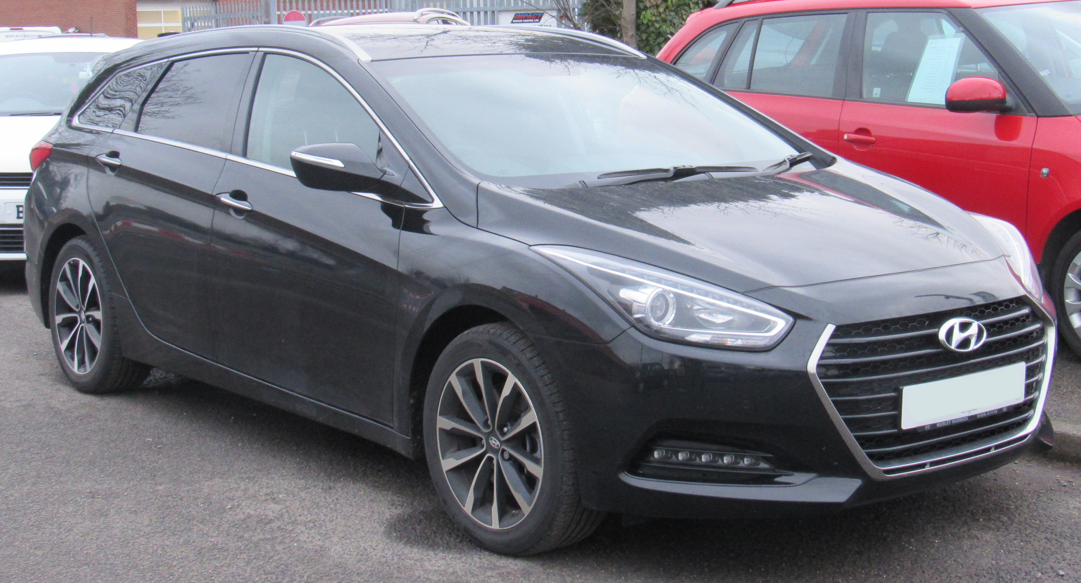 2017 Hyundai i40 SE CRDi Estate facelift 1.7 Front Taken in Warwick